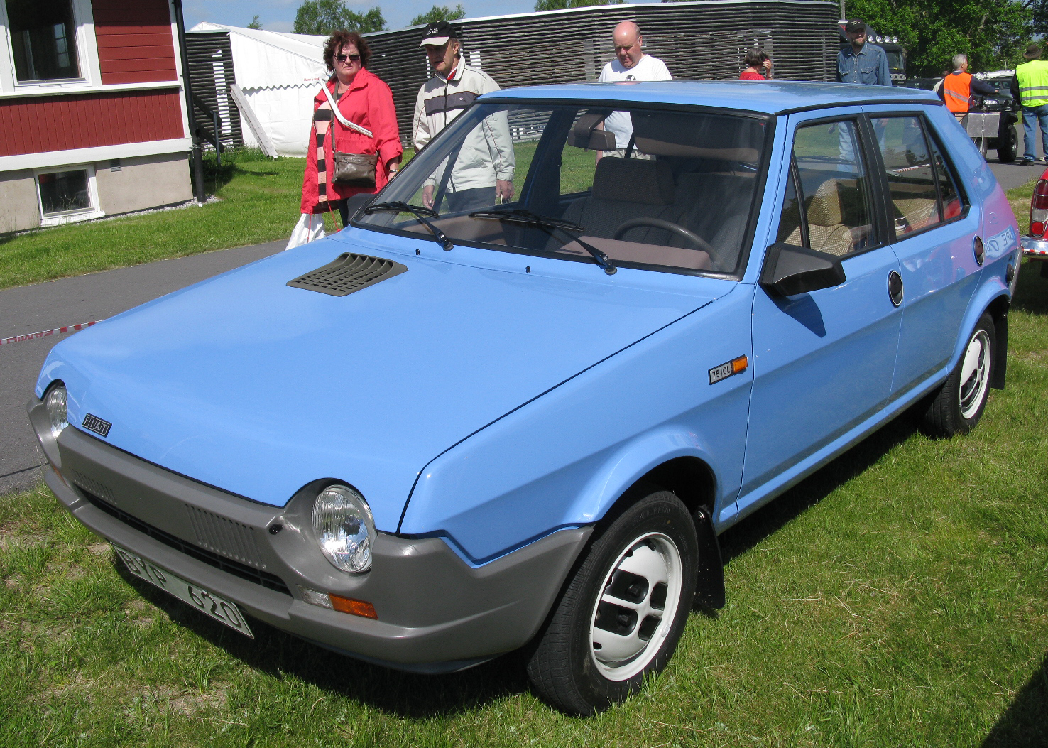 Fiat Ritmo 75CL